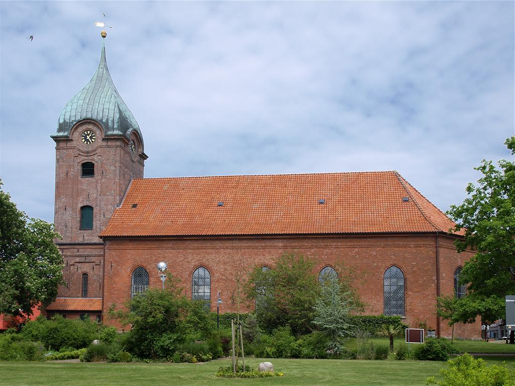 Hohenweststedt (Schleswig-Holstein, Germany), Peter-Paul's Church , photo 2009